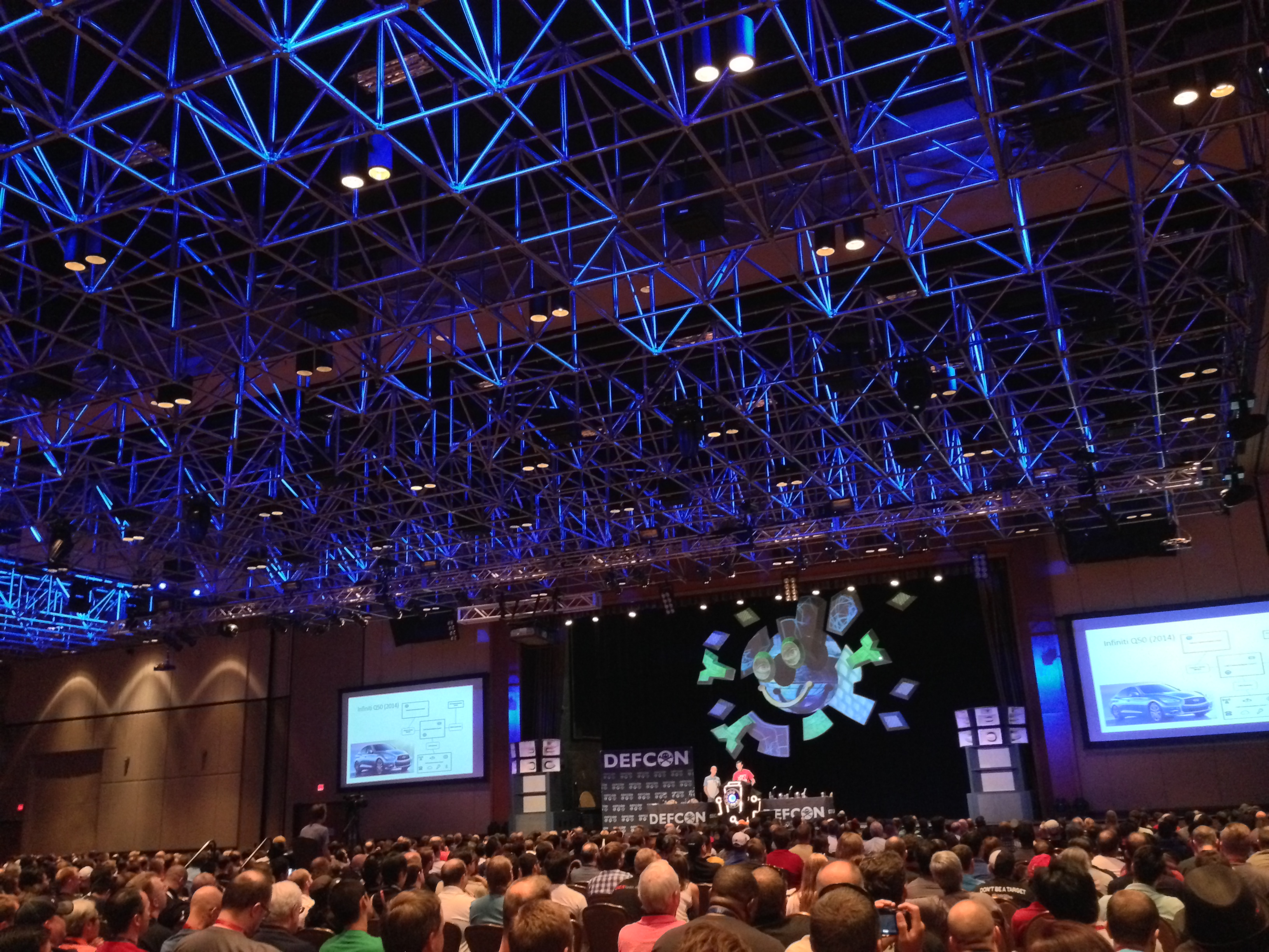 The DEFCON (DEF CON) hacking conference in Las Vegas, Nevada, in 2014.